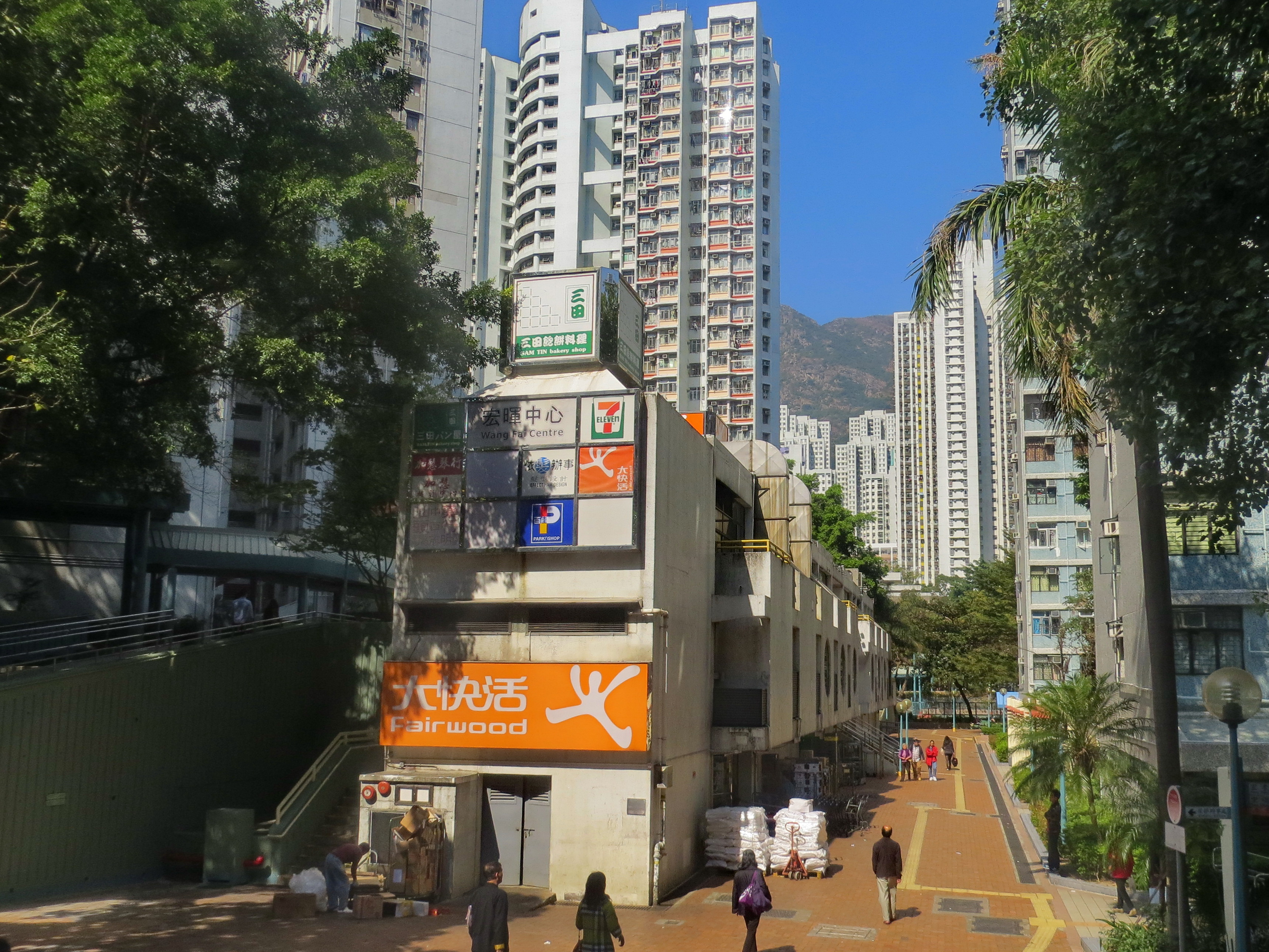 Wang Fai Centre, Wang Tau Hom Estate, Kowloon, Hong Kong.